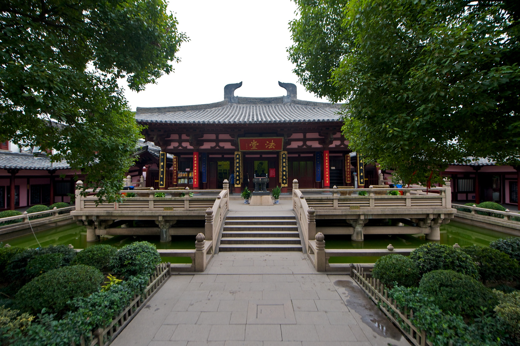 Hanshan Temple 寒山寺, Suzhou.